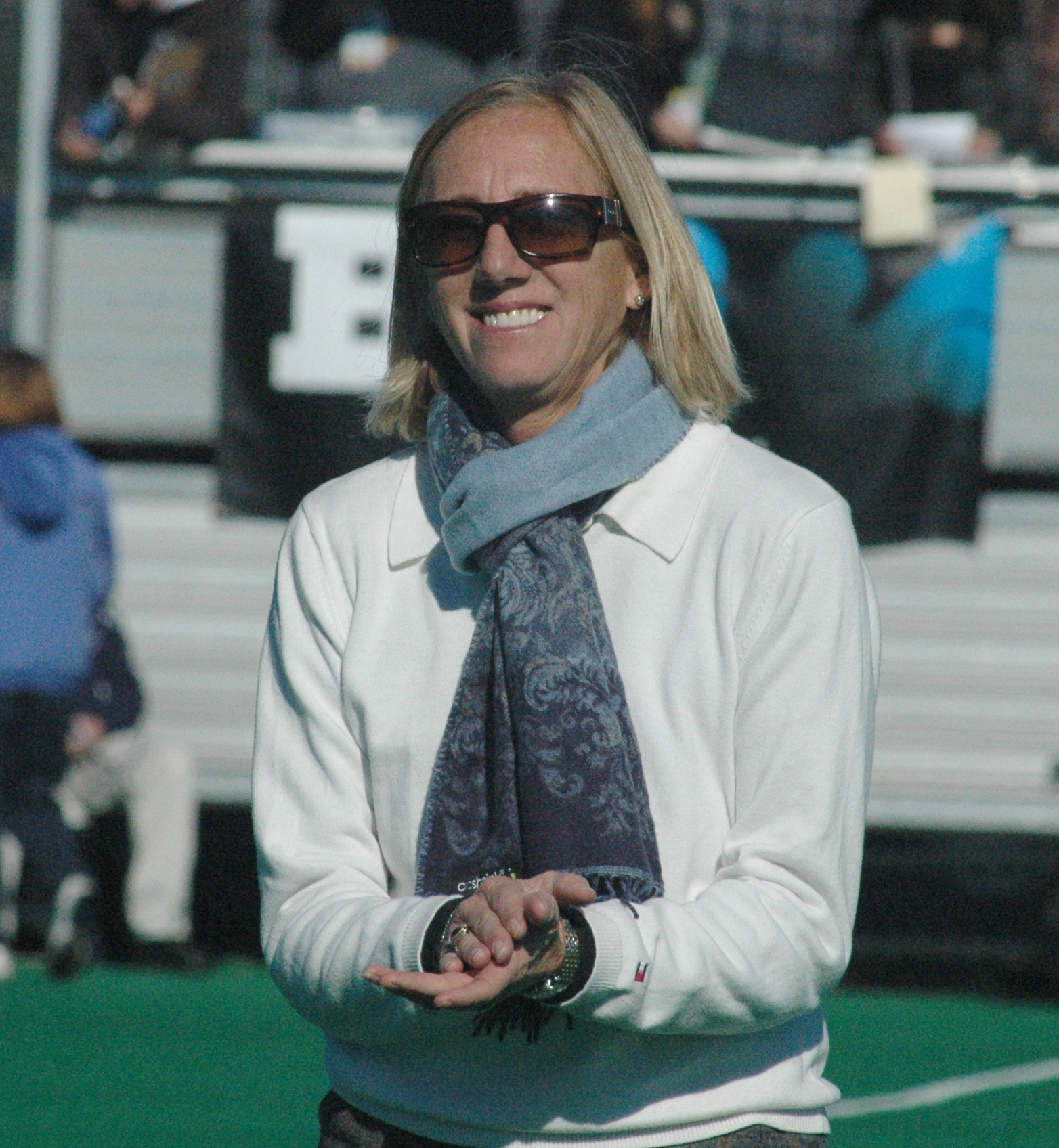 Penn State head coach Charlene Morett during the Ohio State Buckeyes vs. Penn State Nittany Lions 2011 Big Ten Field Hockey Tournament semifinal in University Park, Pennsylvania.